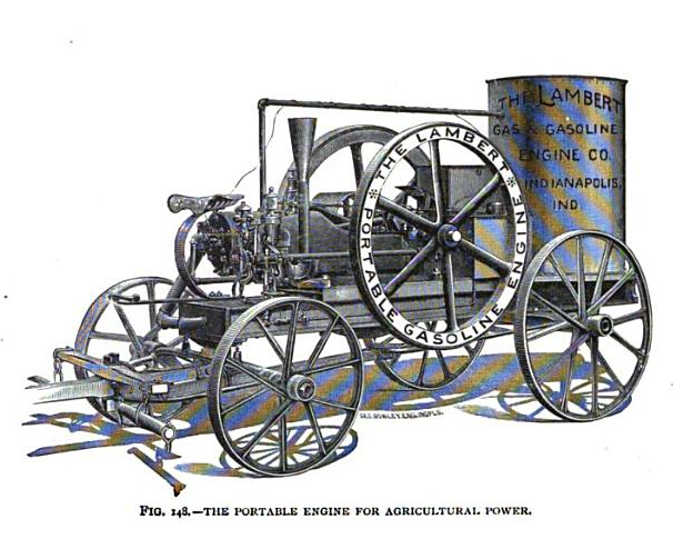 Lambert 1910 portable engine for agriculture power